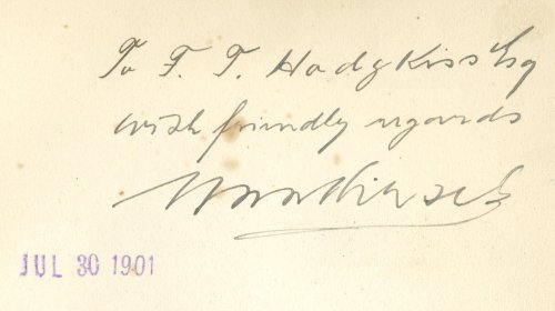 Max Hirsch's autograph on the front flyleaf of an early copy of his book Democracy versus Socialism (1901). The addressee is Frederic Thomas Hodgkiss (1863–1950), who in 1904 became the first editor of Progress, the journal of Prosper Australia (then called the Single Tax League of Victoria).